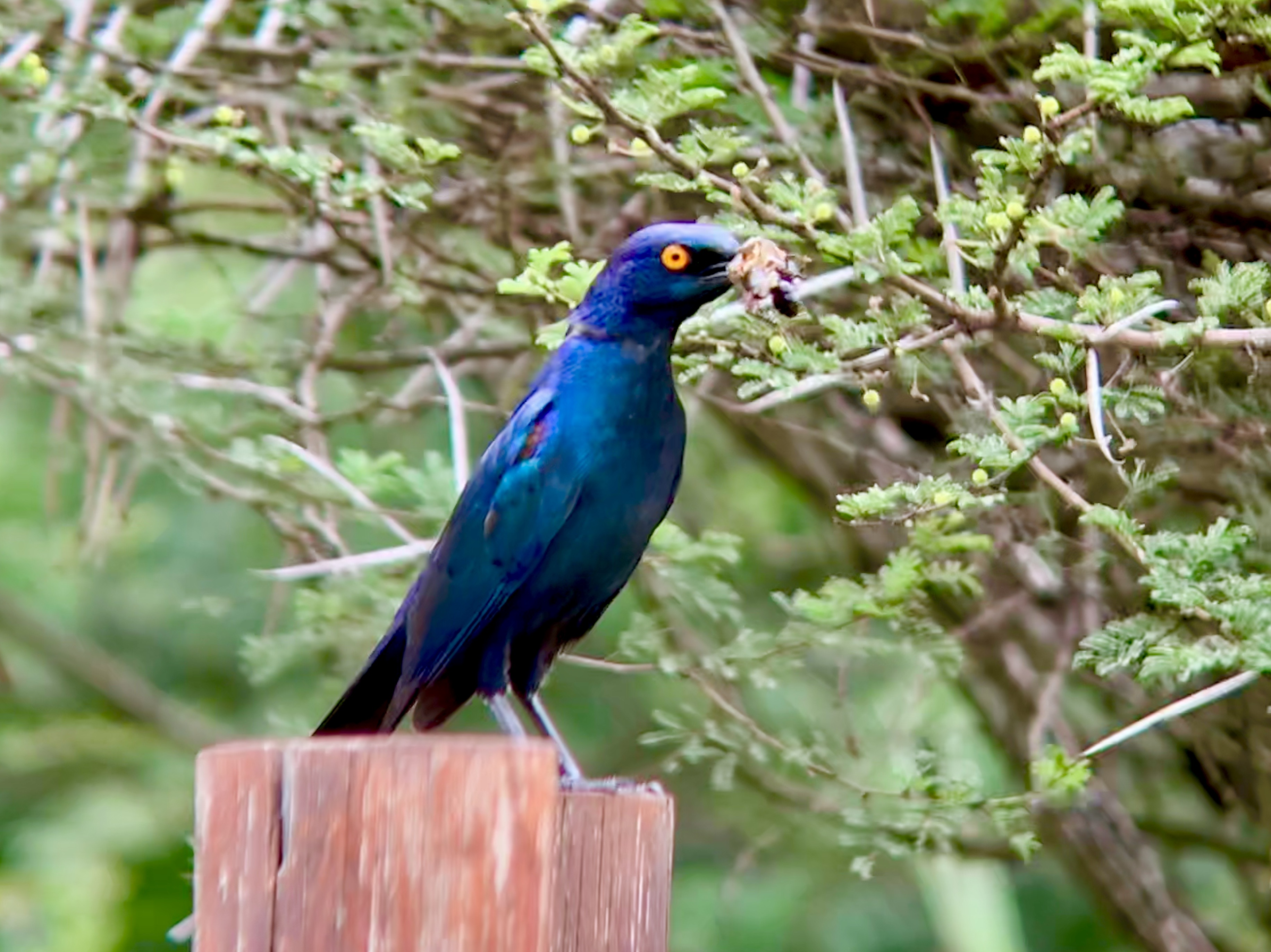 Cape glossy starling (Lamprotornis nitens) eating a cricket on a wooden stump. Photo taken on iPhone X through a binocular lens in Kube Yini, South Africa.